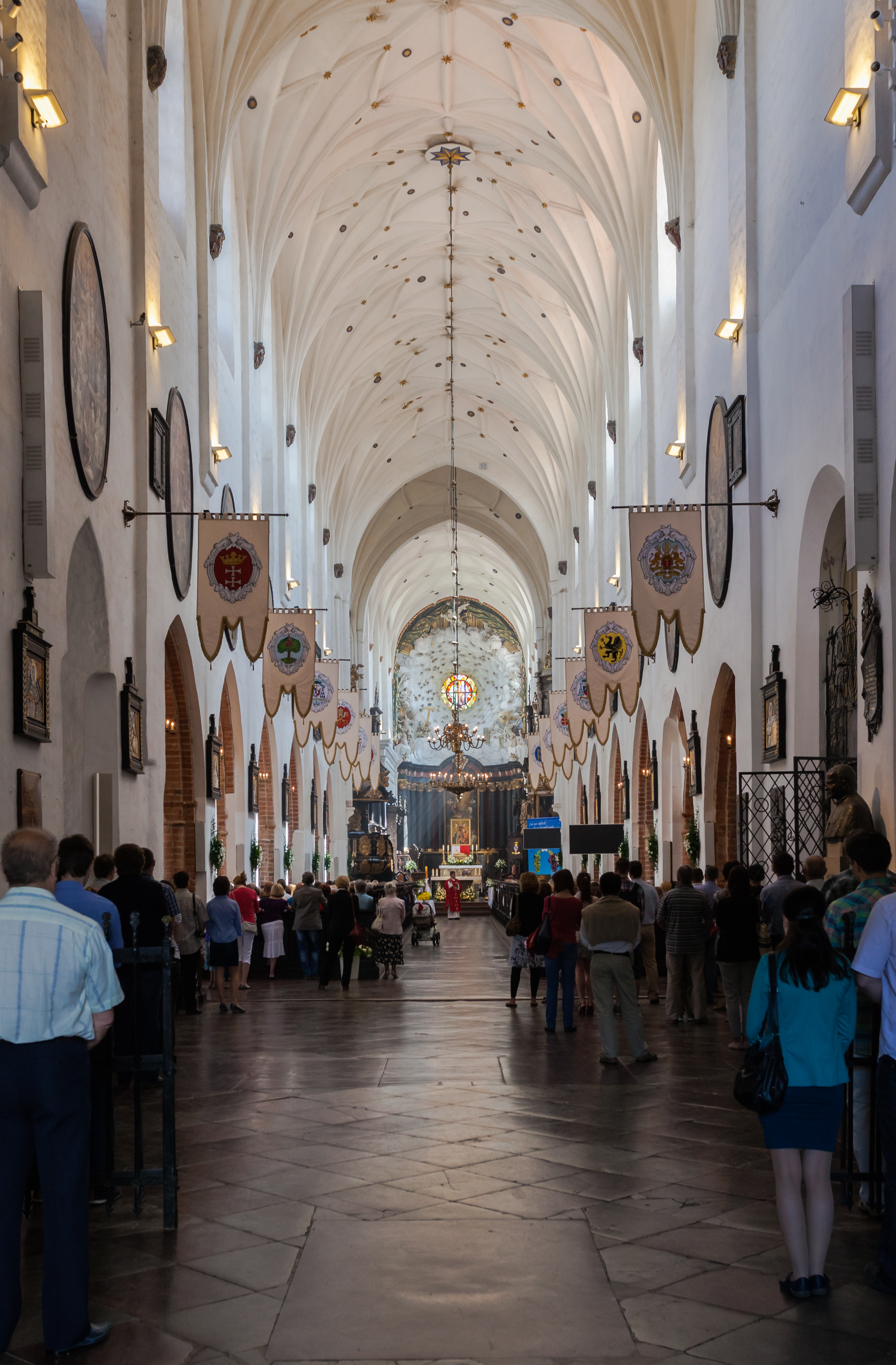 Oliwa Cathedral, Gdansk, Poland